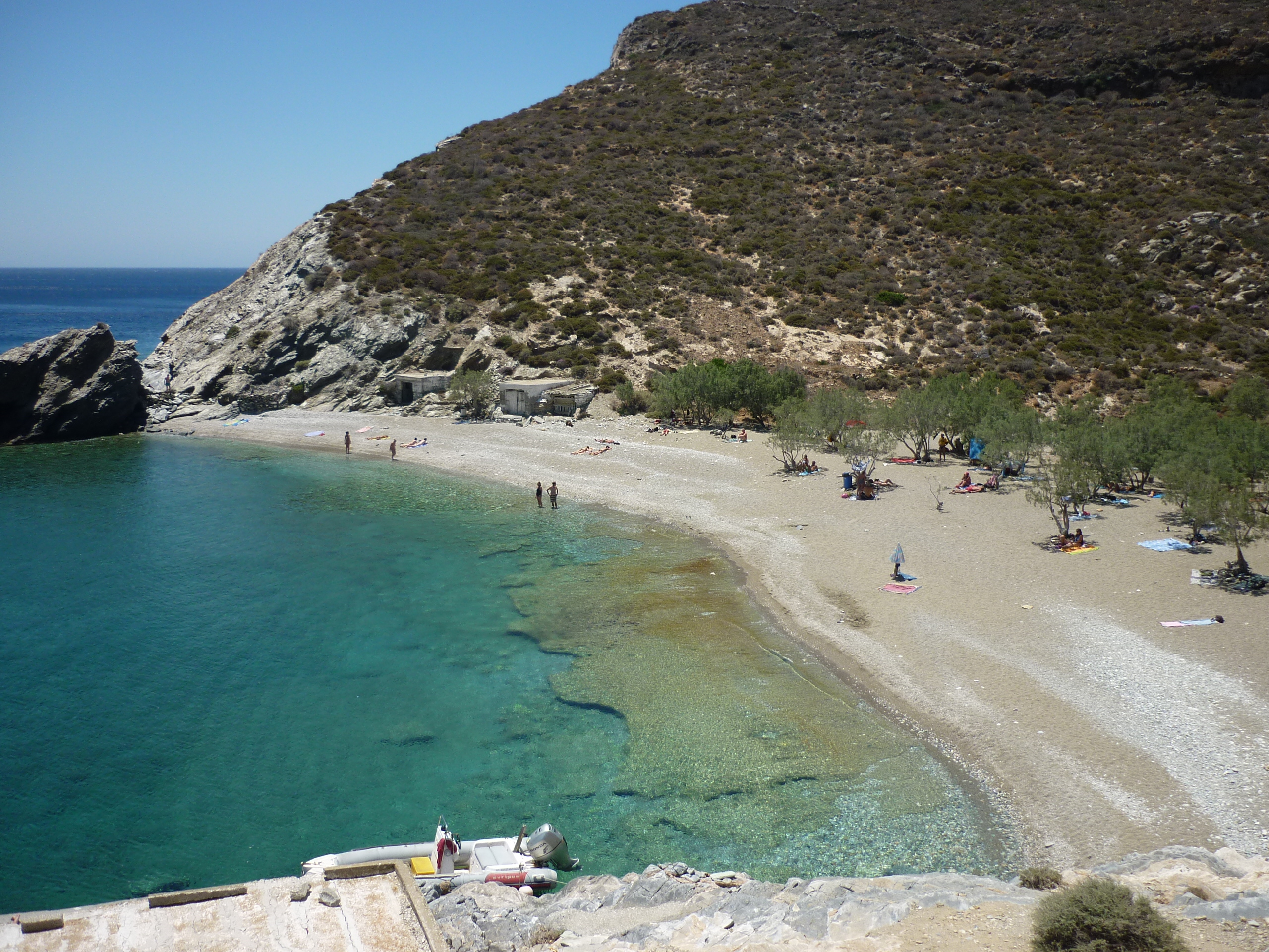 Agios Nikolaos beach is one of the most beautiful beaches in Folegandros